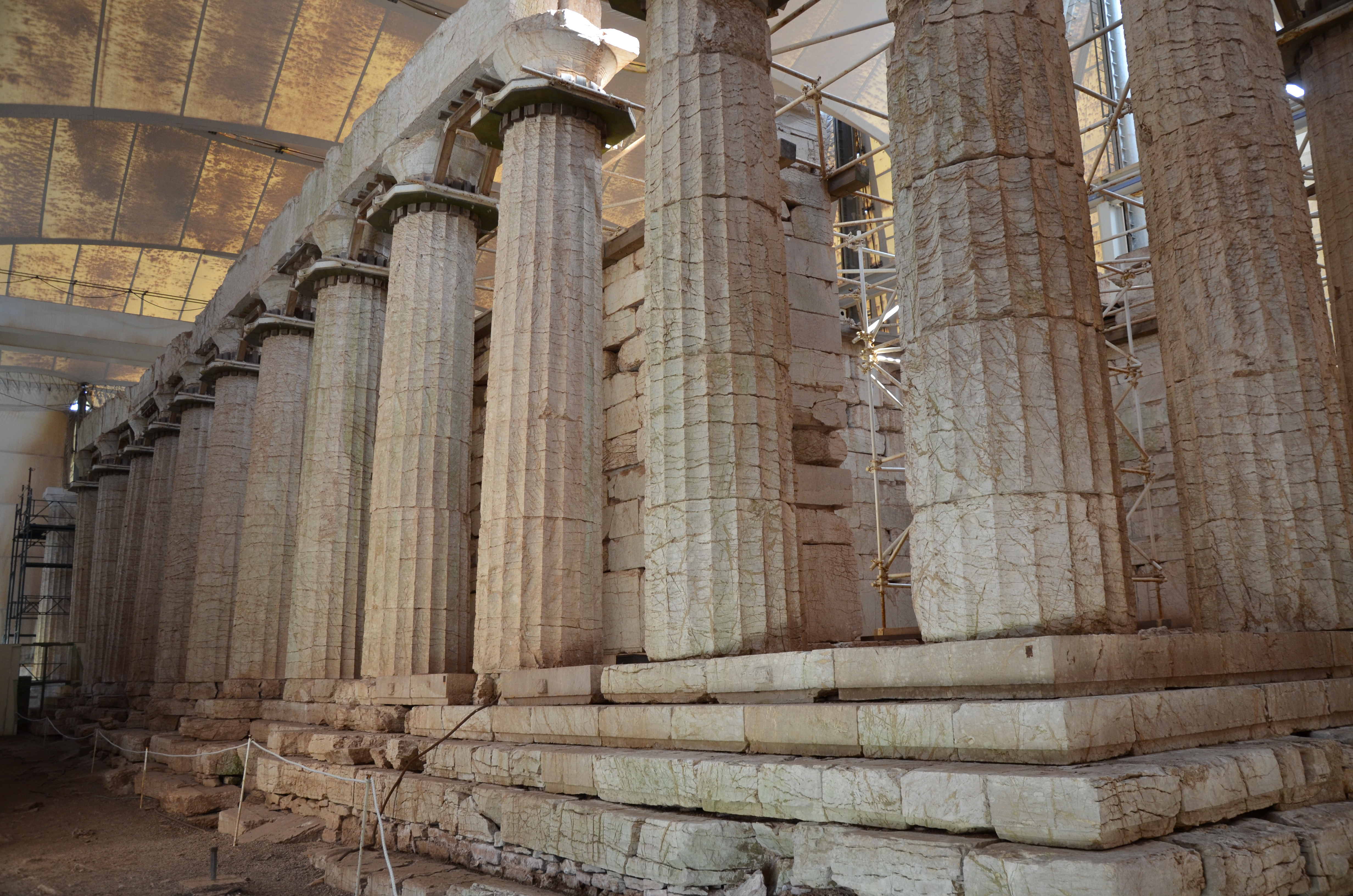 The Temple of Apollo Epikourios at Bassae, east colonnade, Arcadia, Greece